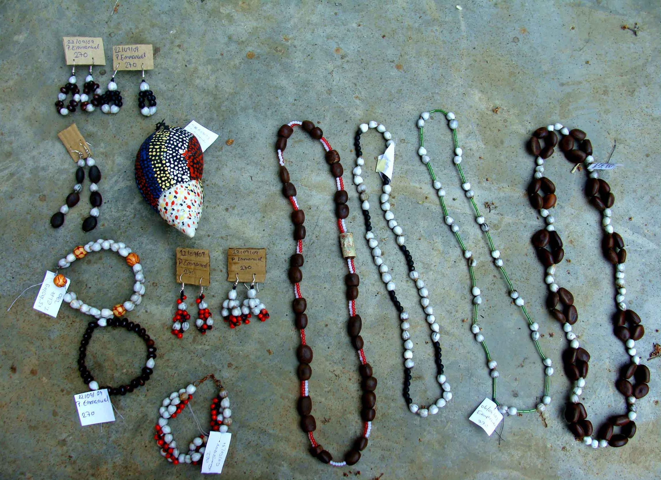 Kumbewu